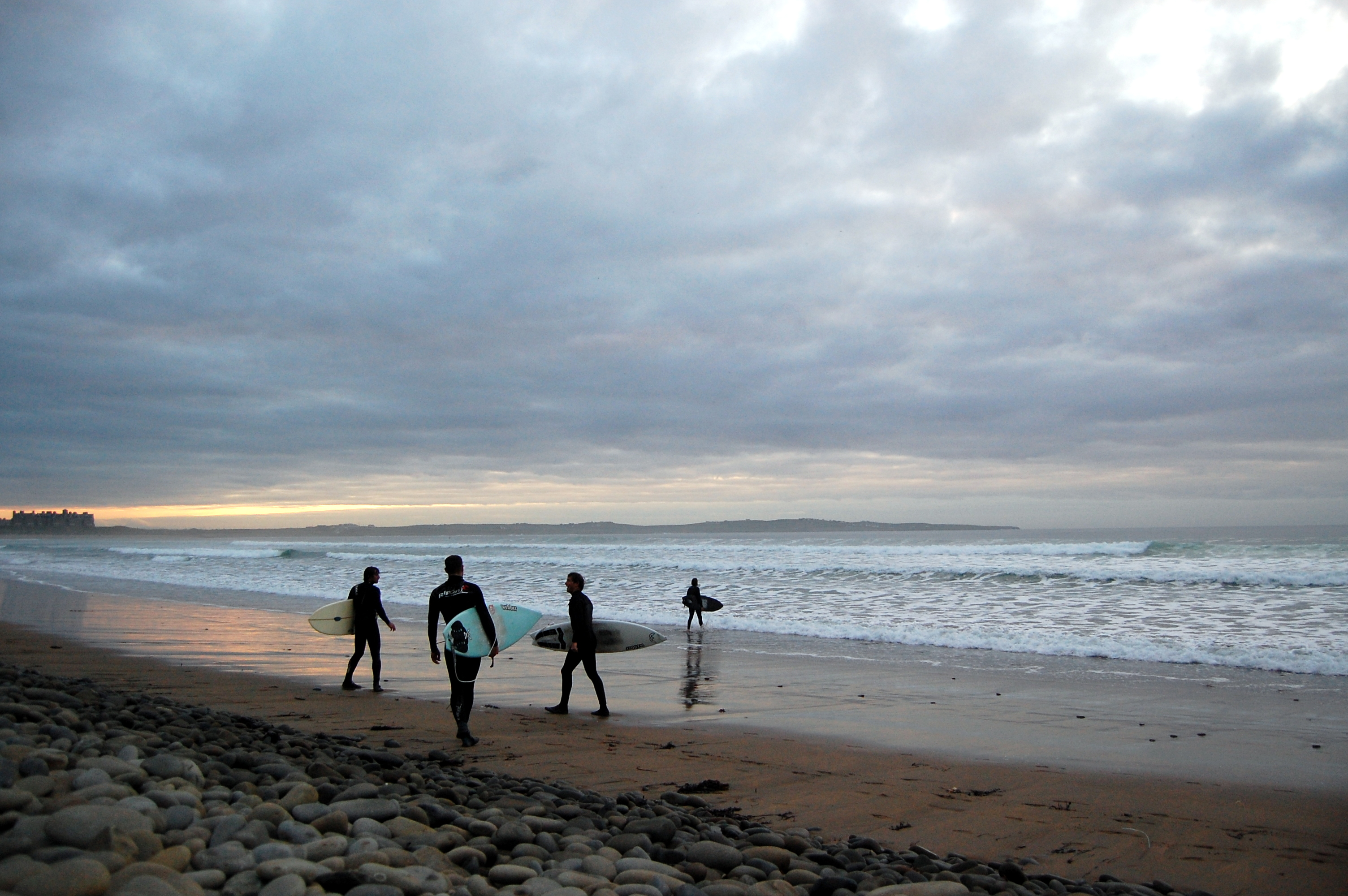 Surfers survey the waves at Doughmore beach in October 2009, Doonbeg Golf Course Hotel can be seen in the distance.